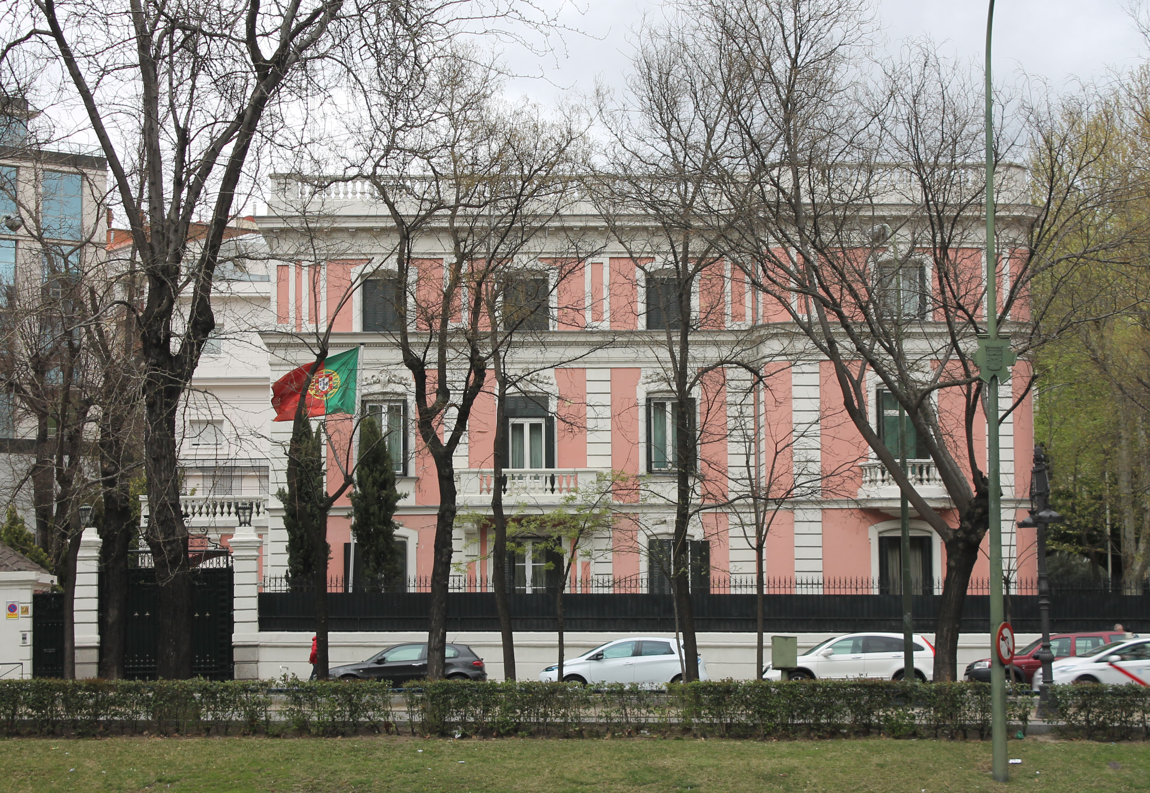 Seat of the Portuguese Embassy in Madrid (Spain).